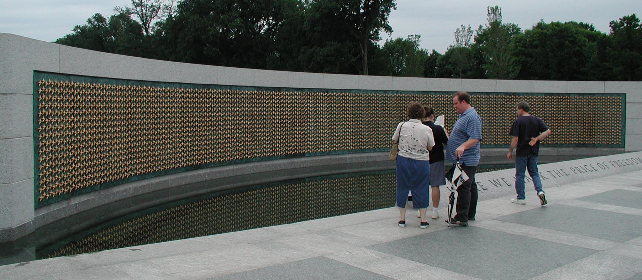 "HERE WE MARK THE PRICE OF FREEDOM" These stars are part of the National World War II Memorial There are 4,048 stars here. Each star represents 100 Americans who died during World War II.